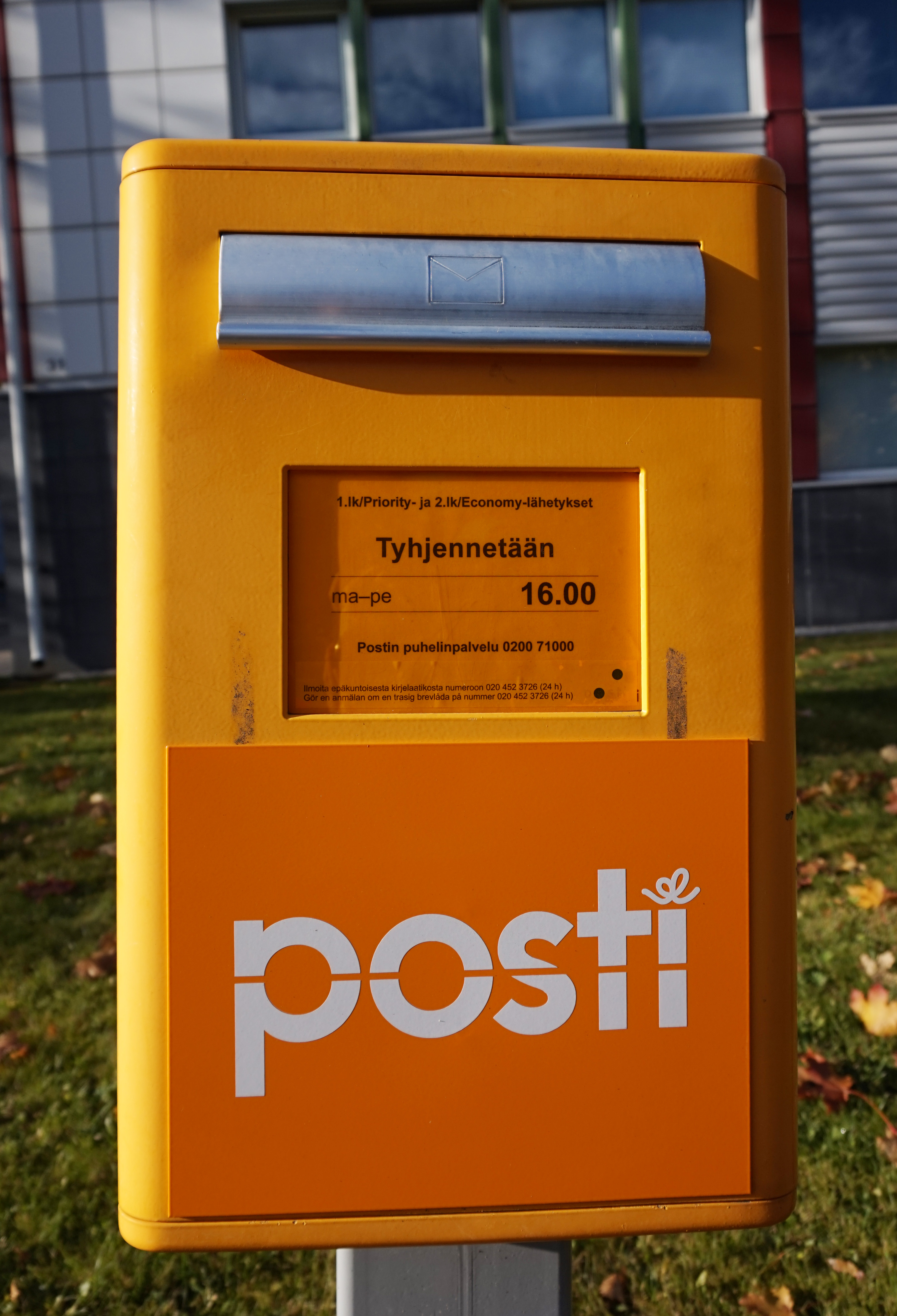 Mailbox in Jyväskylä.This photograph was taken with a Sony ILCE-5000